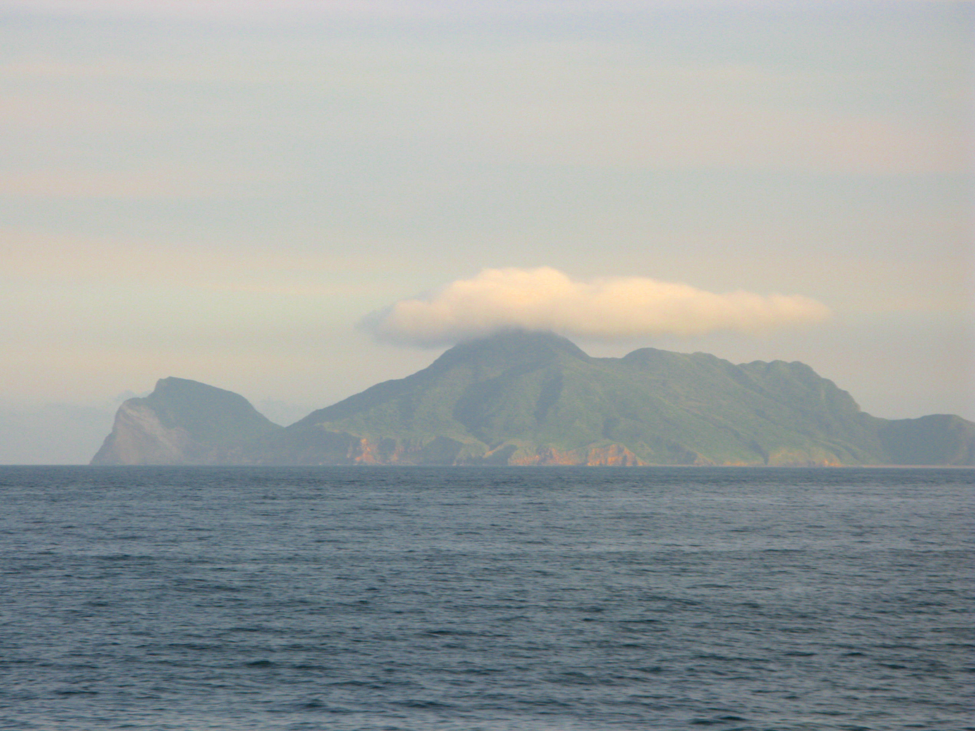 Yilan Gueishan Islandt，Taiwan